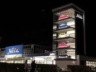 平成29年12月21日（木）日本一高い6階建て、高さ20ｍの日本一高い車両展示タワー「ネッツタワー」が完成。